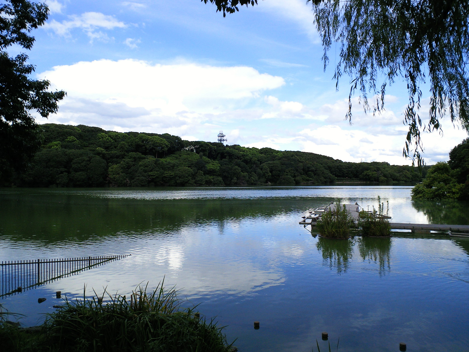 Yamada ike (Pond), Hirakata, Osaka, Japan